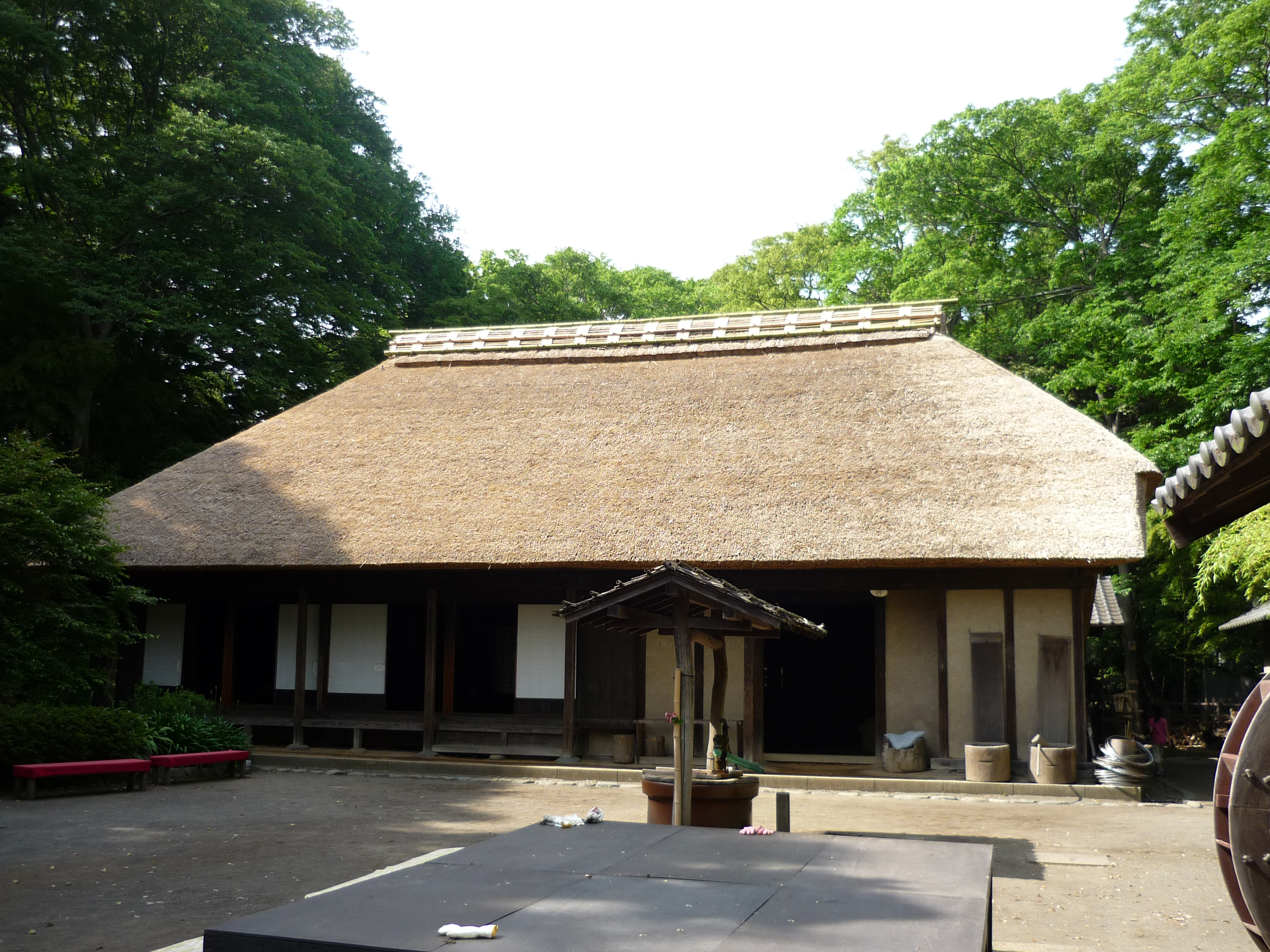 Nagayamon Anzaike'old house